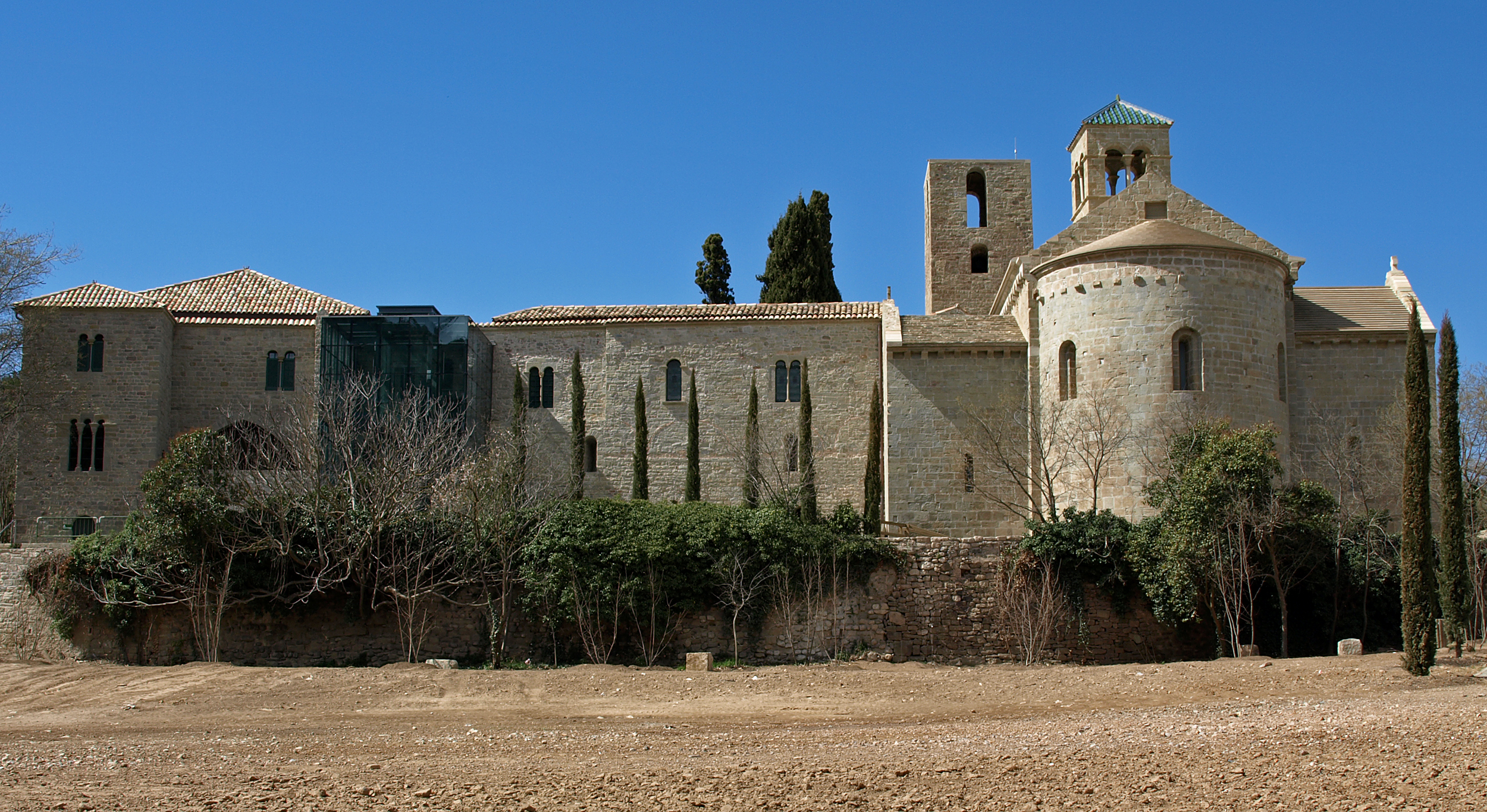 Monastery of Sant Benet de Bages (Bages, España)